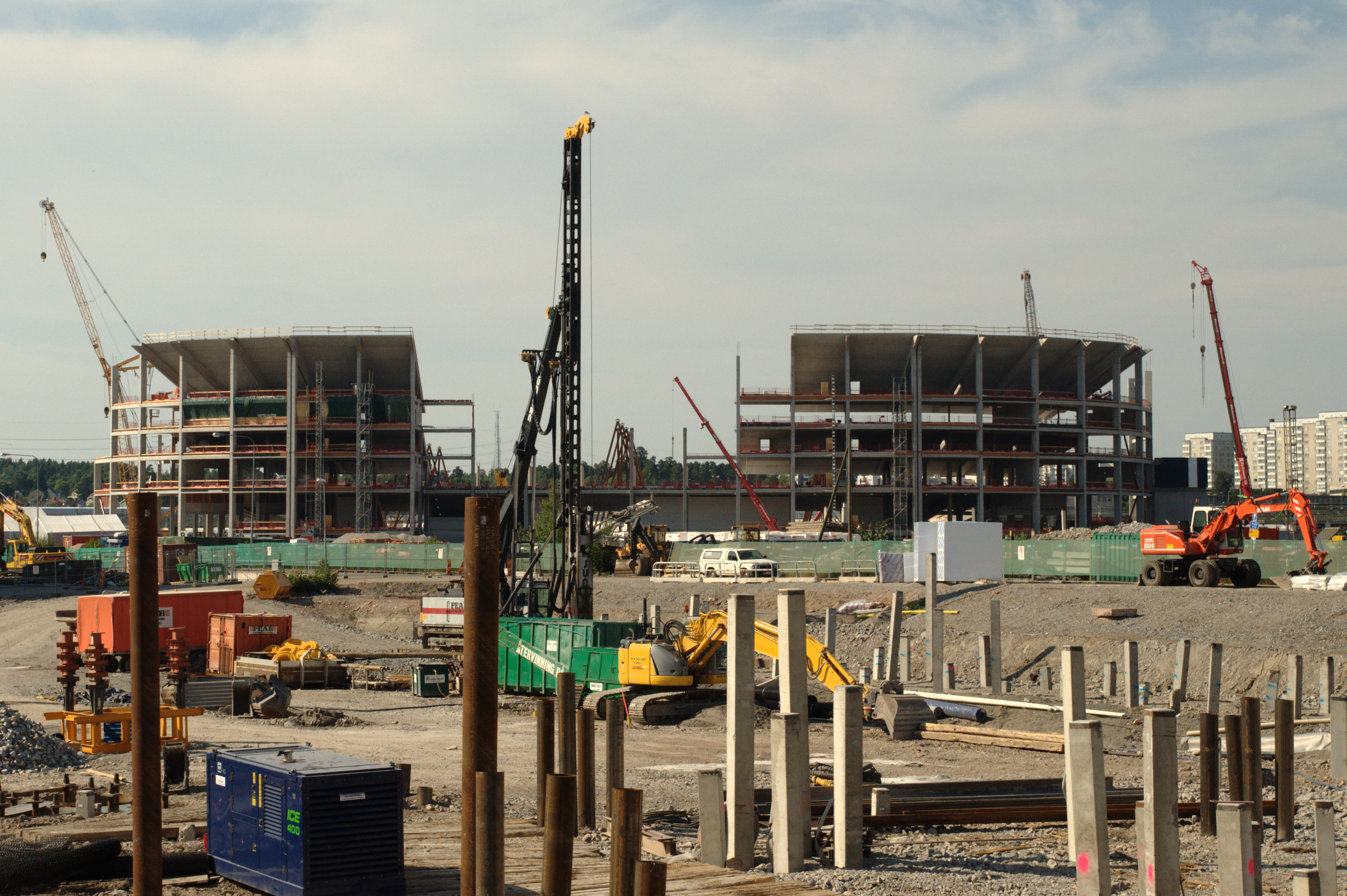 Swedbank Arena in Solna, Sweden